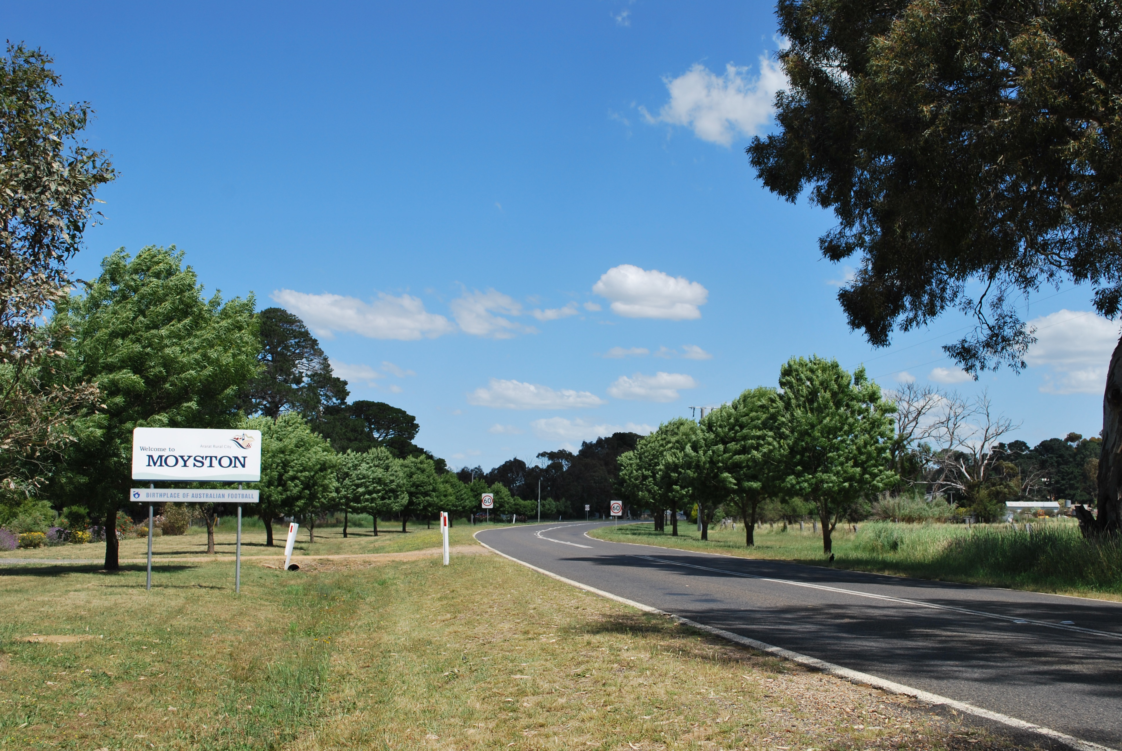 Entering Moyston, Victoria